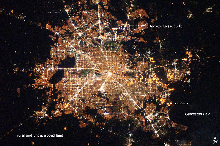 The image depicts the roughly 100-kilometer (60-mile) east-west extent of the Houston metropolitan area. Houston proper is at image center, indicated by a “bull’s-eye” of elliptical white- to orange-lighted beltways and brightly lit white freeways radiating outwards from the central downtown area. Suburban and primarily residential urban areas are indicated by both reddish-brown and gray-green lighted regions, which indicate a higher proportion of tree cover and lower light density. Astronaut photograph ISS022-E-78463 was acquired on February 28, 2010, with a Nikon D3 digital camera and is provided by the ISS Crew Earth Observations experiment and Image Science & Analysis Laboratory, Johnson Space Center. The image was taken by the Expedition 22 crew.